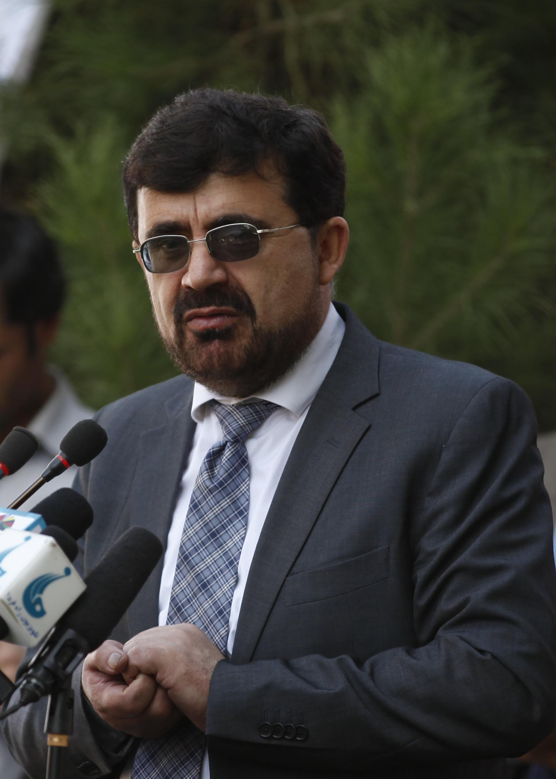 Counter Narcotics Minister Osmani gives his remarks during officially opening of the U.S.-funded Parwan Drug Treatment Center in Parwan, Afghanistan.